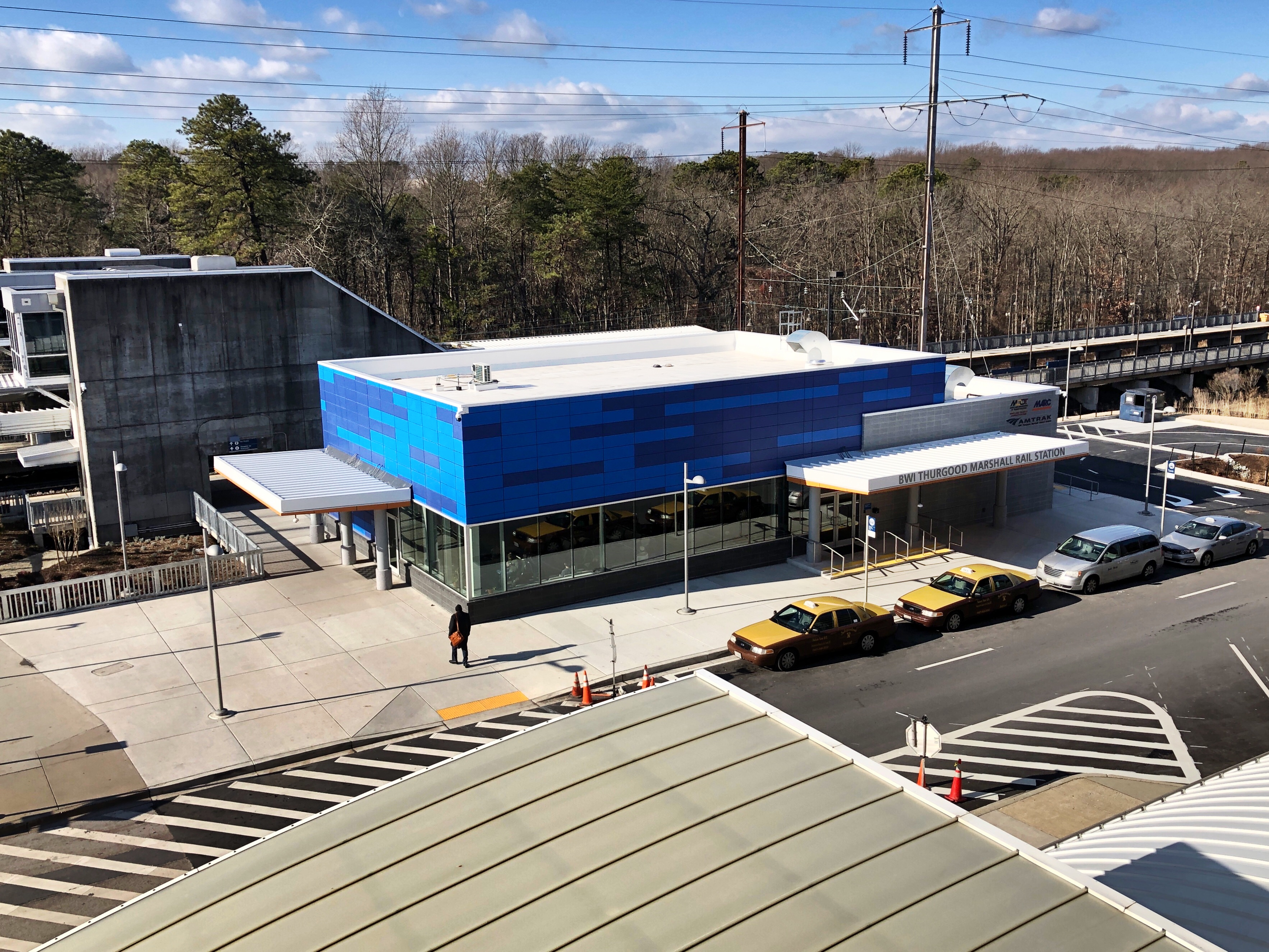 The newly rebuilt BWI station in December 2019